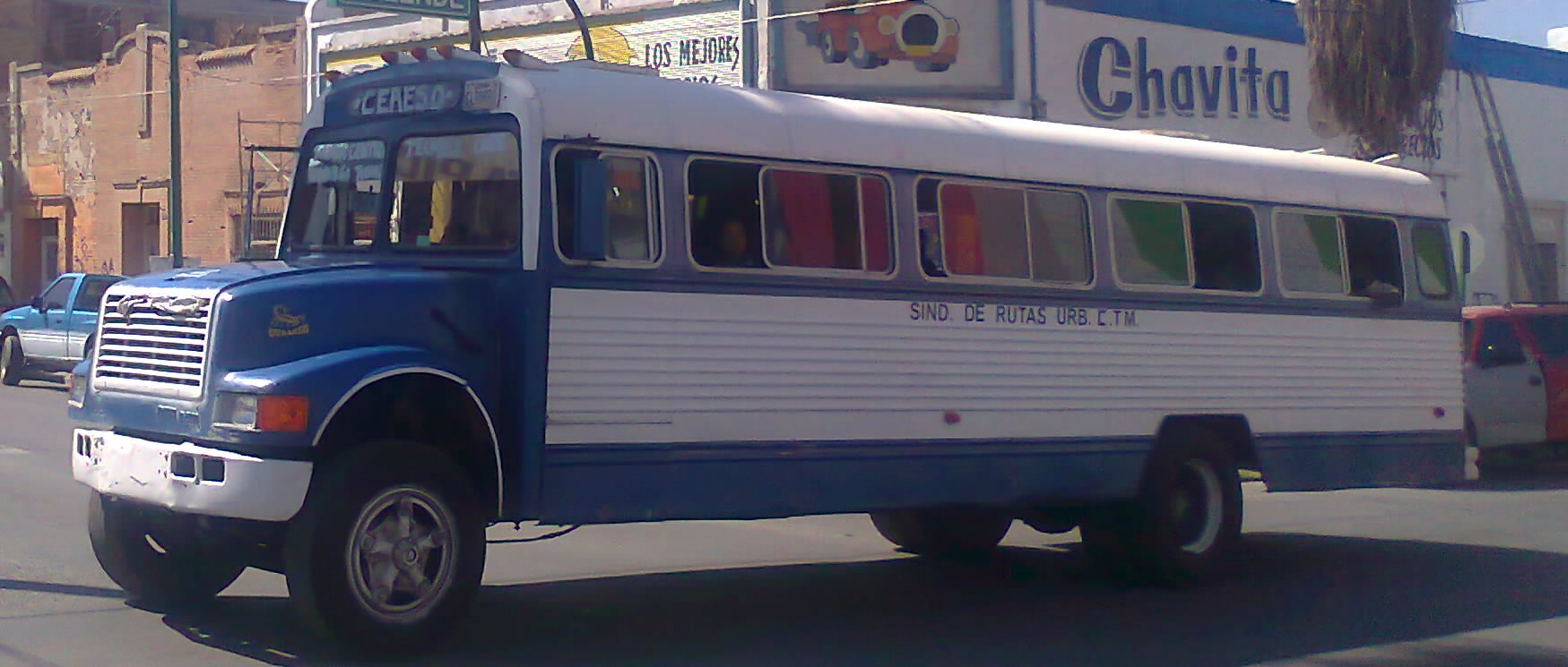 Gomez Palacio bus, Cereso branch line, Sotomex™ body, Dina™ chassis